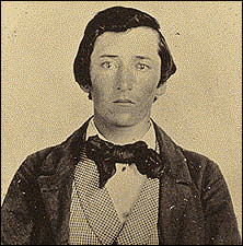 Photo of Captain William Clarke Quantrill who die in 1865. Used in article Quantrill's Raiders